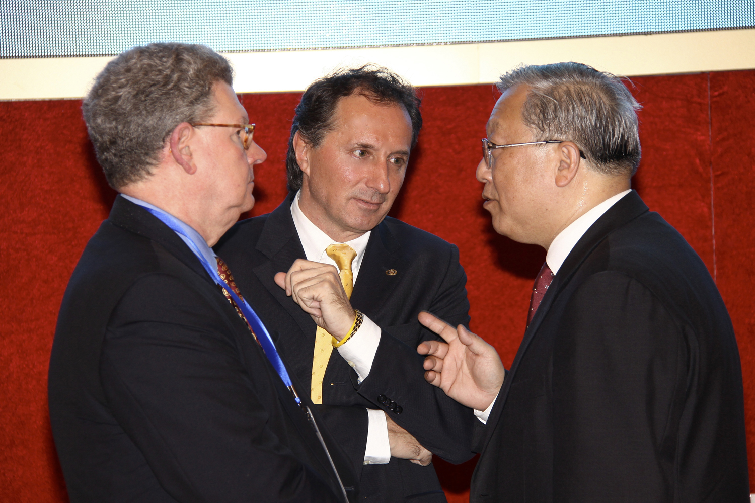 CAS Reception 2009, CAS Chairman Lu Yongxiang (right) speaking to GISAID President Peter Bogner (center) and International Academy of Sciences President John Campbell (left)